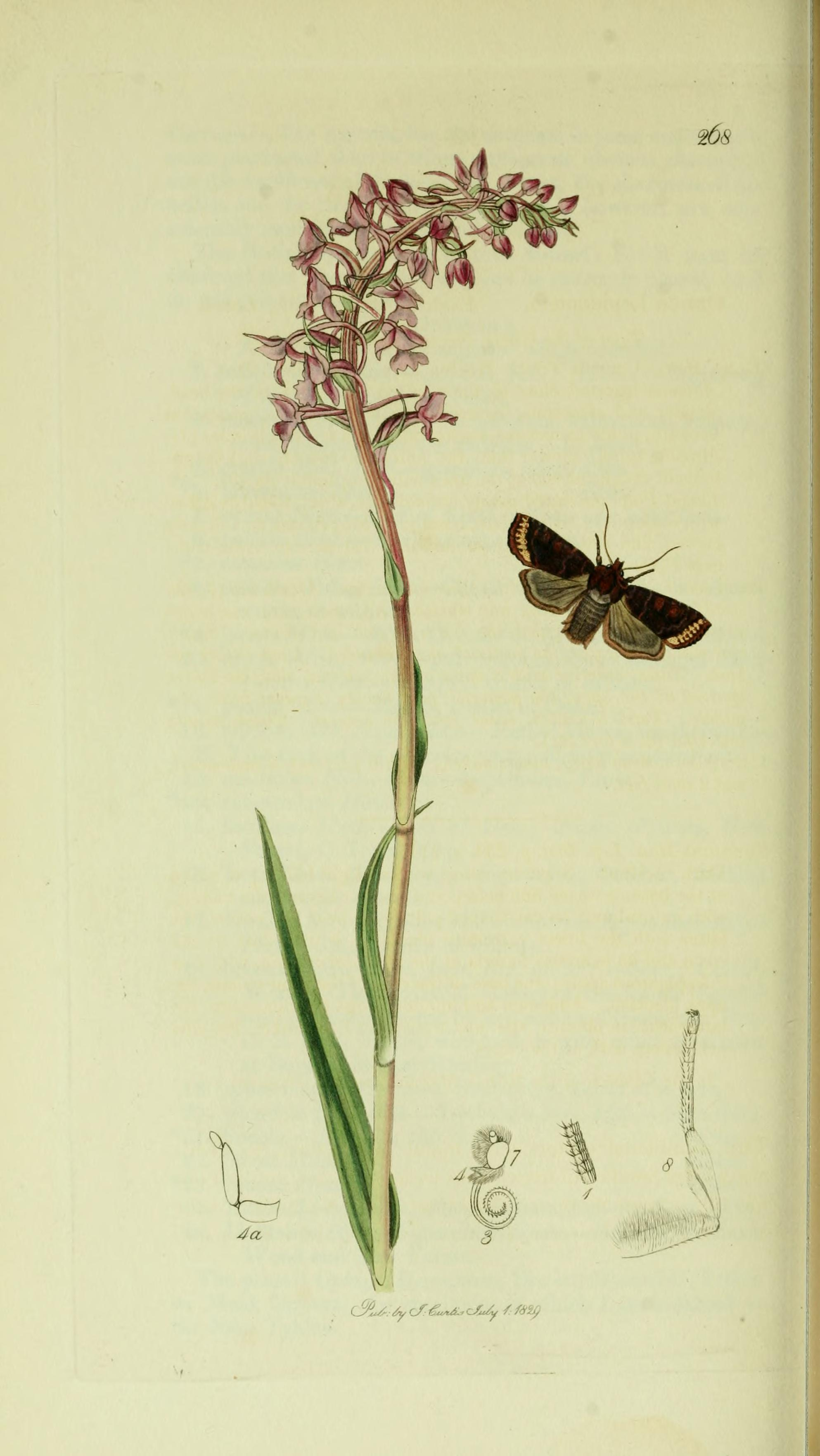 An illustration from British Entomology by John Curtis. Glaea subnigra or Conistra ligula ab. subnigra (Dark Chestnut).